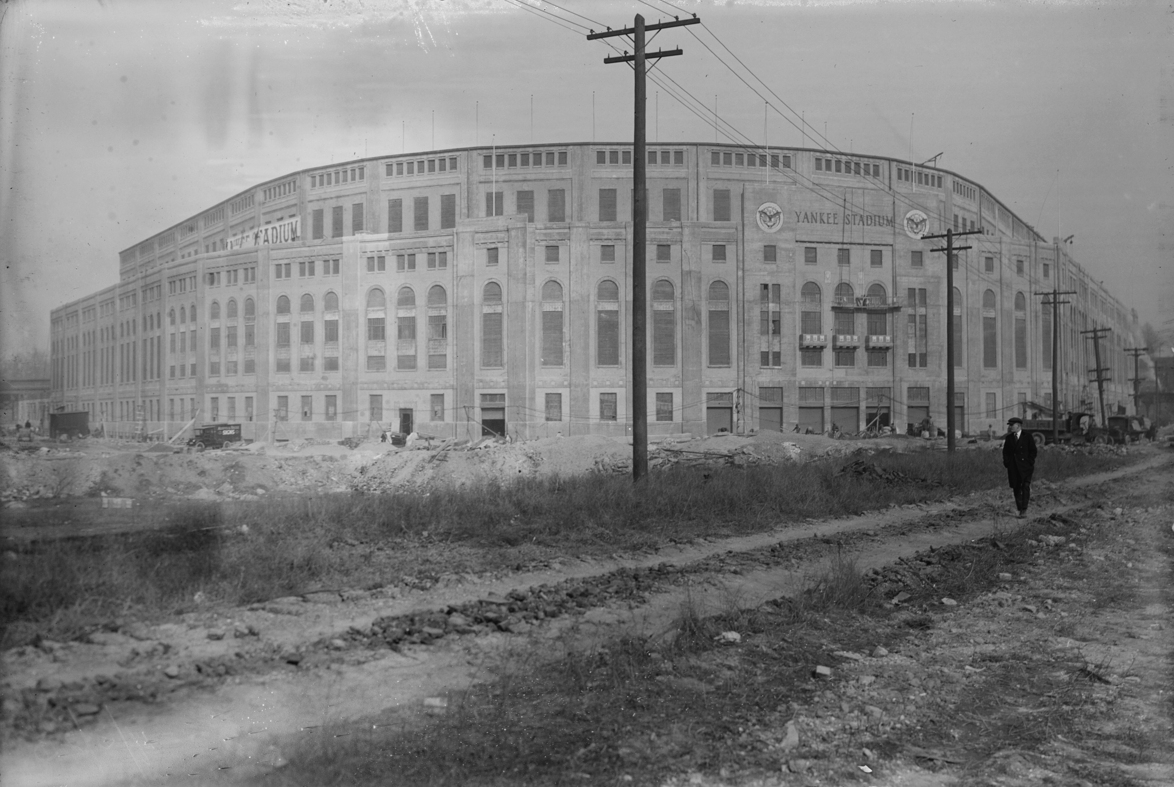 The exterior of Yankee Stadium in 1923.